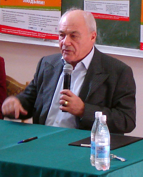 Image of Vladimir Posner, taken at Pskov State Polytechnical Institute.